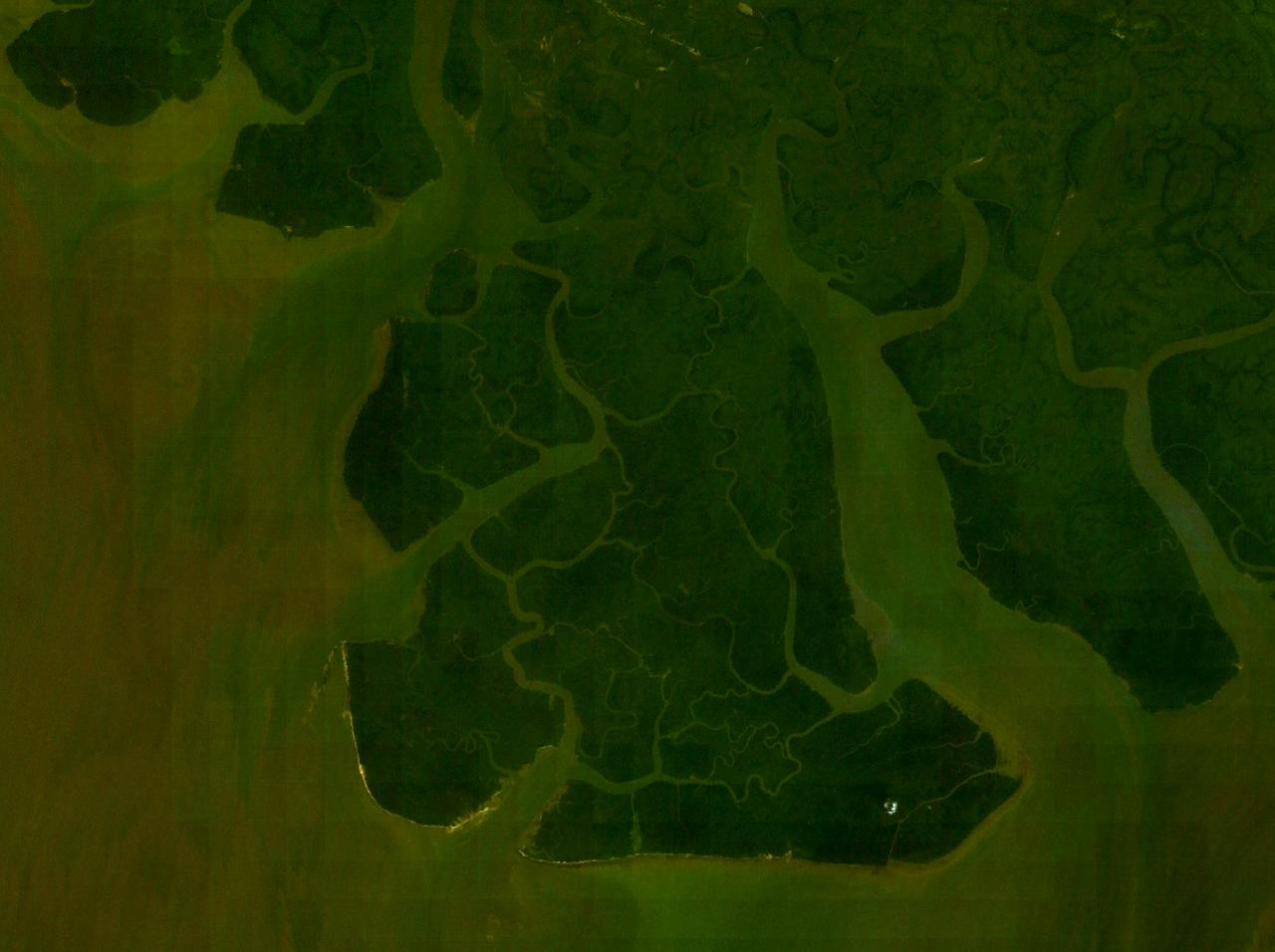 Bakassi Peninsula in the Bight of Bonny, Cameroon